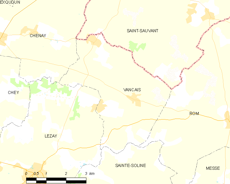 Map of French municipality Vançais